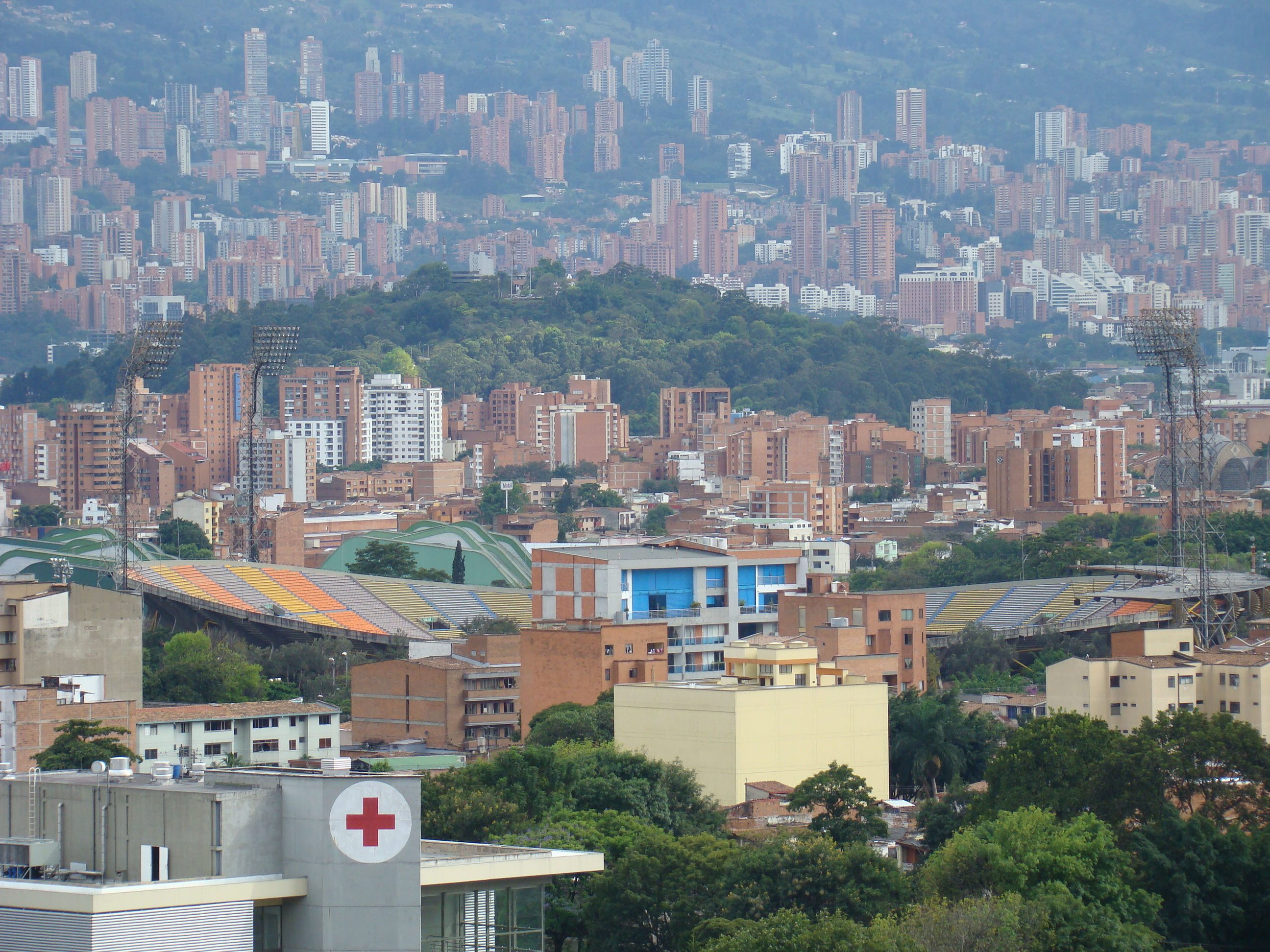 Medellín skyline